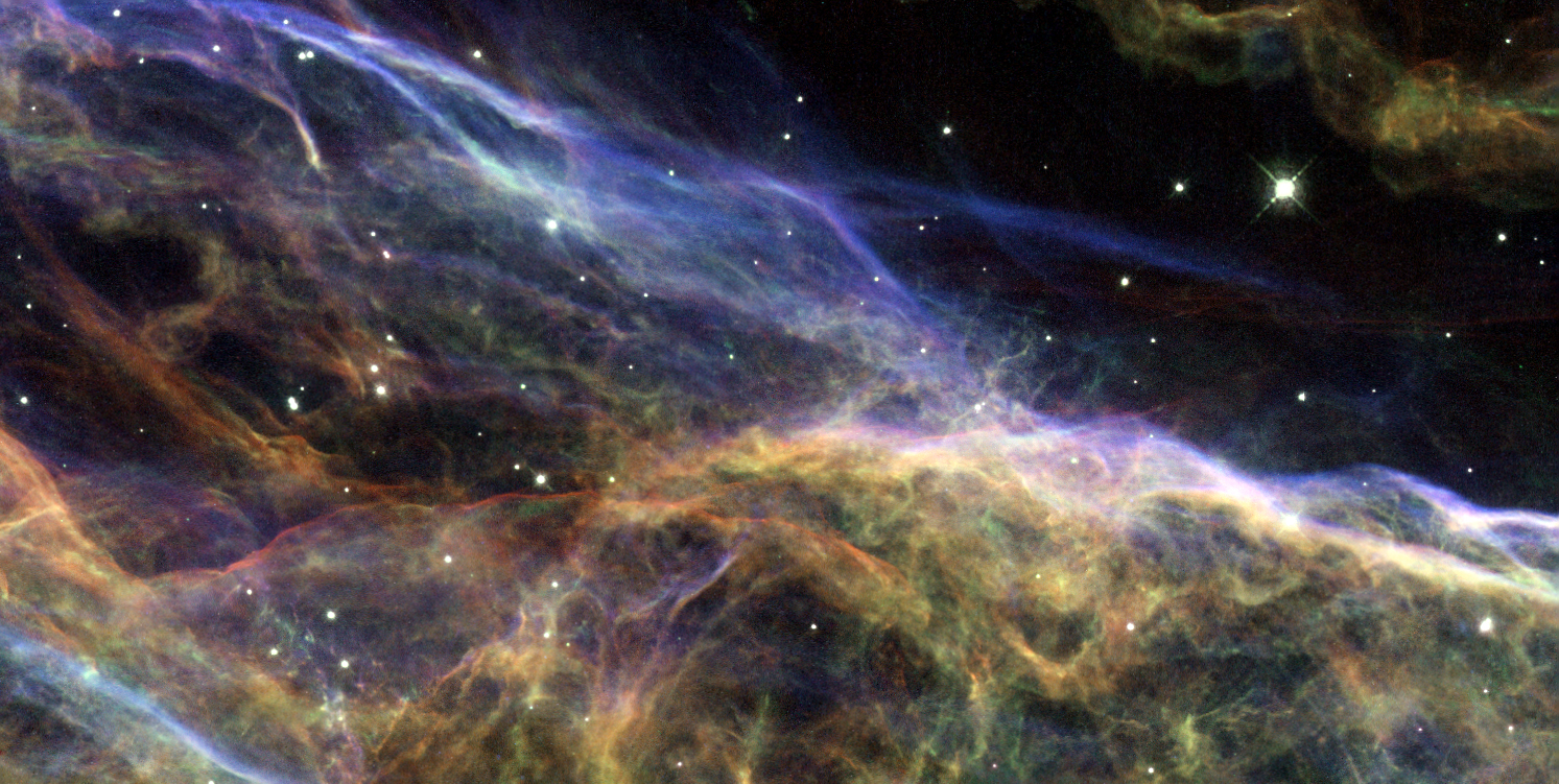 Portion of the Veil Nebula as photographed by the Hubble Space Telescope. Data Description: The Hubble image was created from HST data from proposals 5774 and 5779: J. Hester (Arizona State Universitry) and J. Westphal (Caltech). Instrument: WFPC2 Exposure Date(s): November 1994, August 1997 Color: This image is a composite of many separate exposures made by the WFPC2 instrument on the Hubble Space Telescope. Three filters were used to sample narrow wavelength ranges. The color results from assigning different hues (colors) to each monochromatic image. In this case, the assigned colors are: F502N ([O III]) blue F656N (Halpha) green F673N ([S II]) red